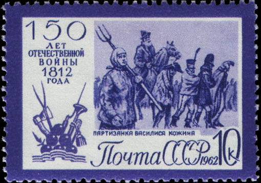 A USSR postage stamp in memory of a Russian partisan of the Patriotic War of 1812 Vasilisa Kozhina Other information According to Russian law the copyright shall not apply to state symbols and signs (flags, emblems, orders, banknotes, and the like), as well as symbols and signs of municipal formations. Article 1259 (6) of the Russian Civilian Code. Russian Federation is a legal successor of USSR.